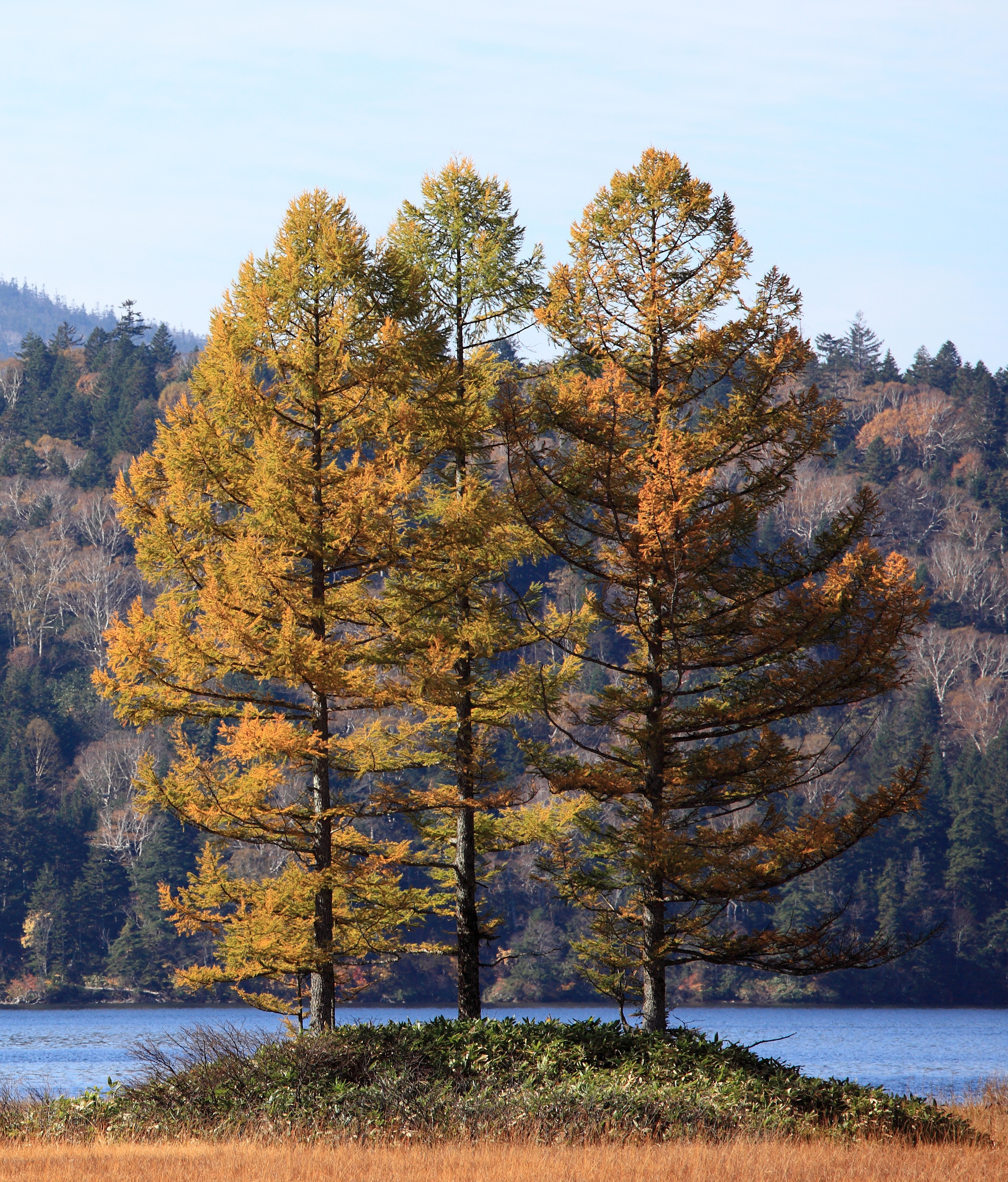 Larix kaempferi, Oze National Park, Hinoemata-mura (village) Fukushima-ken (Prefecture), Japan.